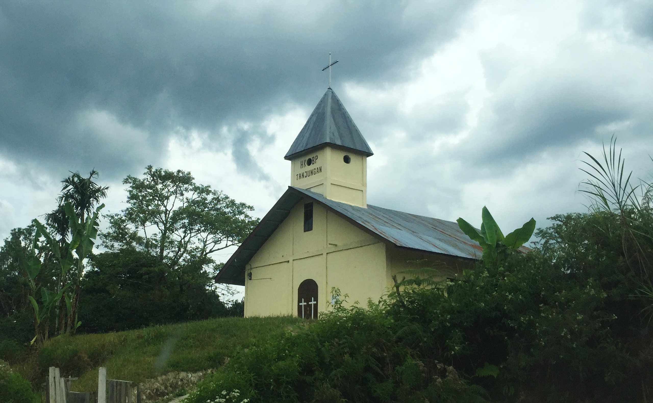 HKBP Tanjungan, Church in Tanjungan, Simanindo, Samosir